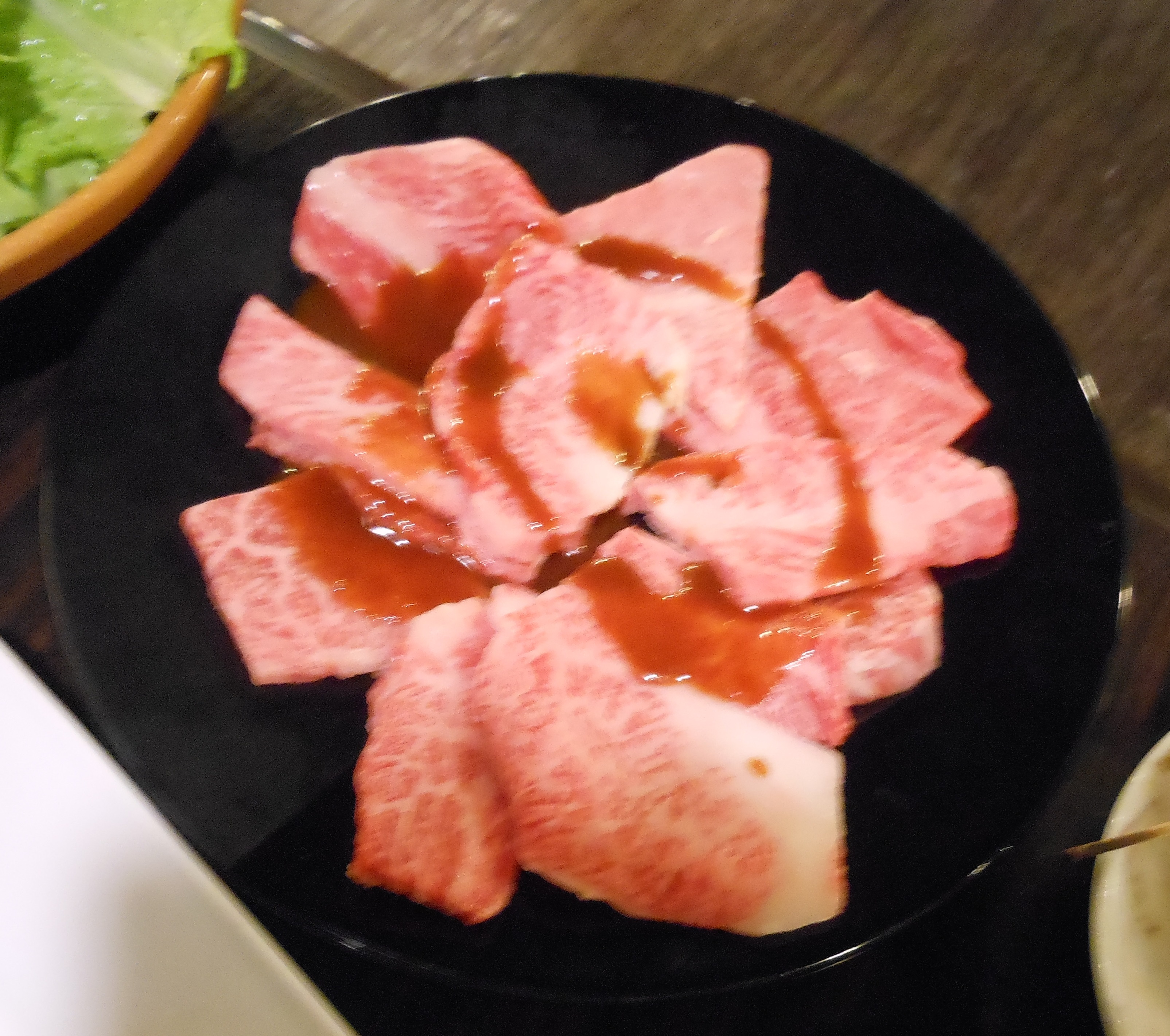 This is Matsusaka Beef for Yakiniku. It was served by Isshobin Hisai Inter Garden shop.